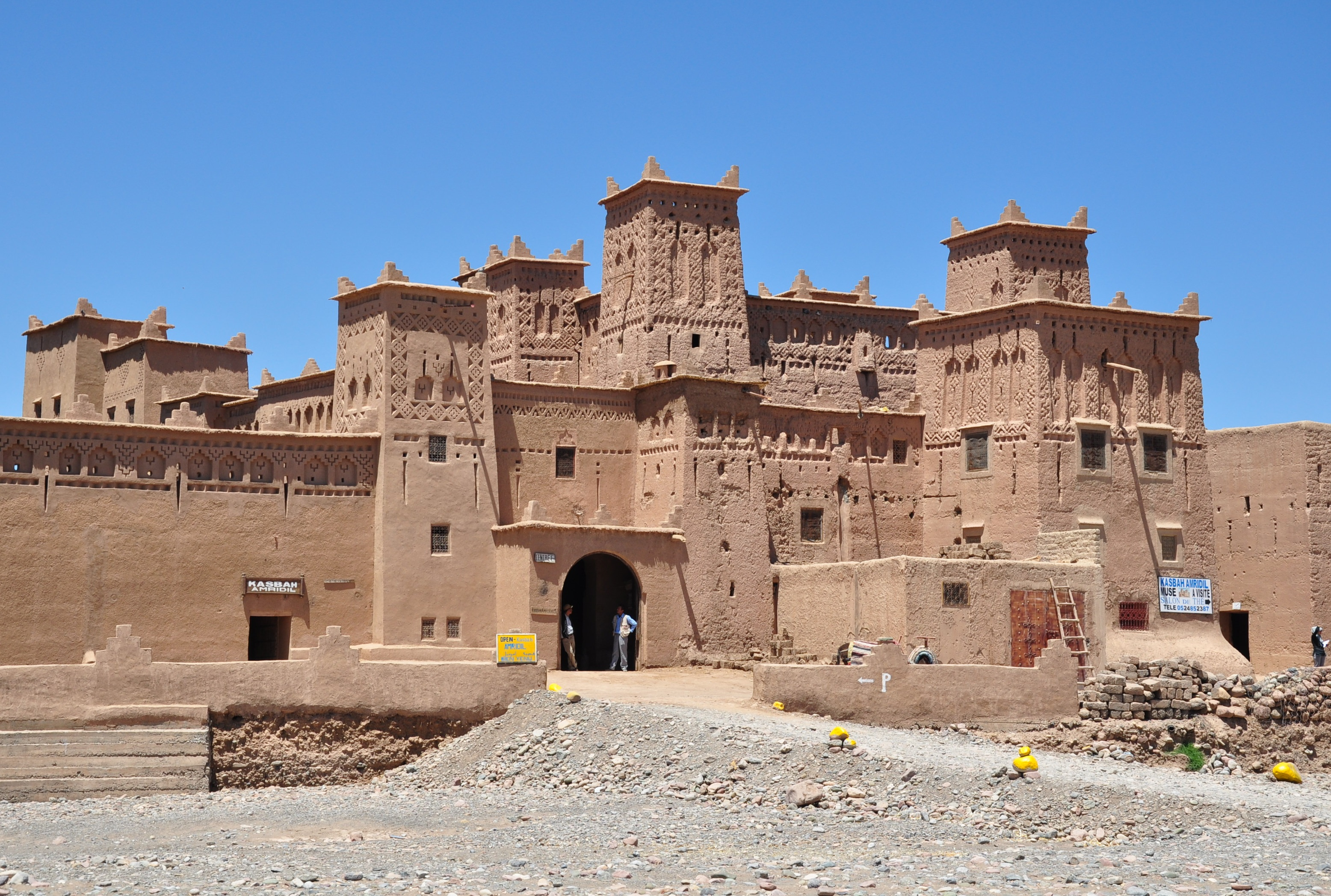 Kasbah Amerhidil lies 2 km from Skoura (southern Morocco, Souss-Massa-Draa Region, Ouarzazate Province).